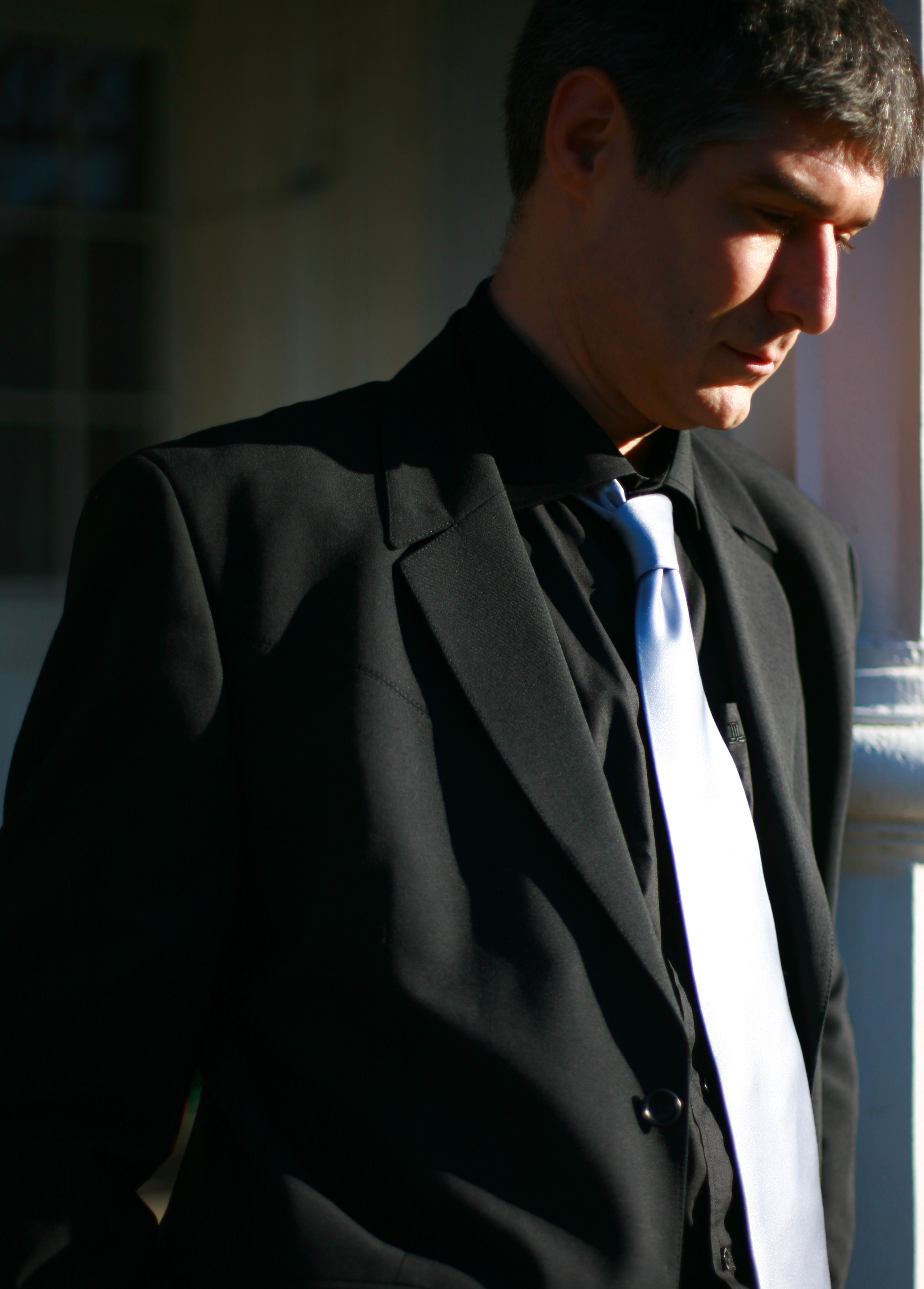 Thierry Chenavaud portrait.